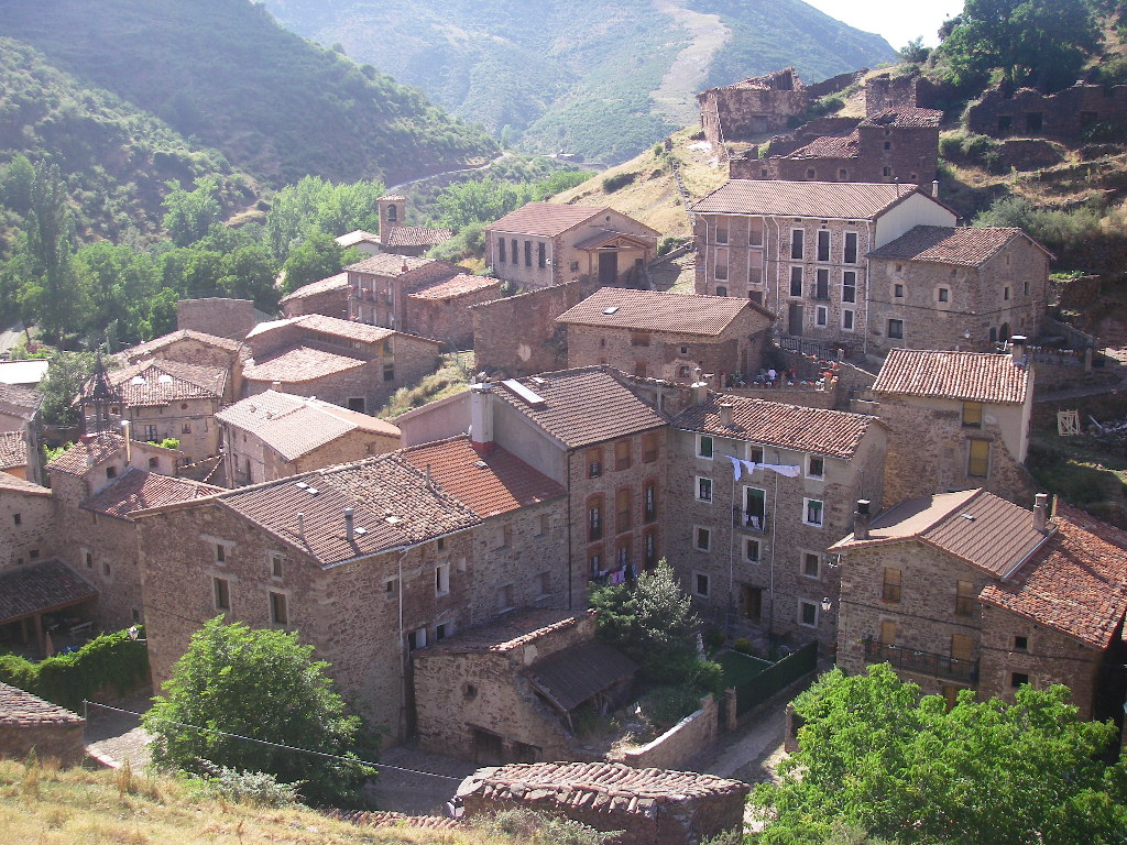 Partial view of Viniegra de Arriba (La Rioja, Spain)